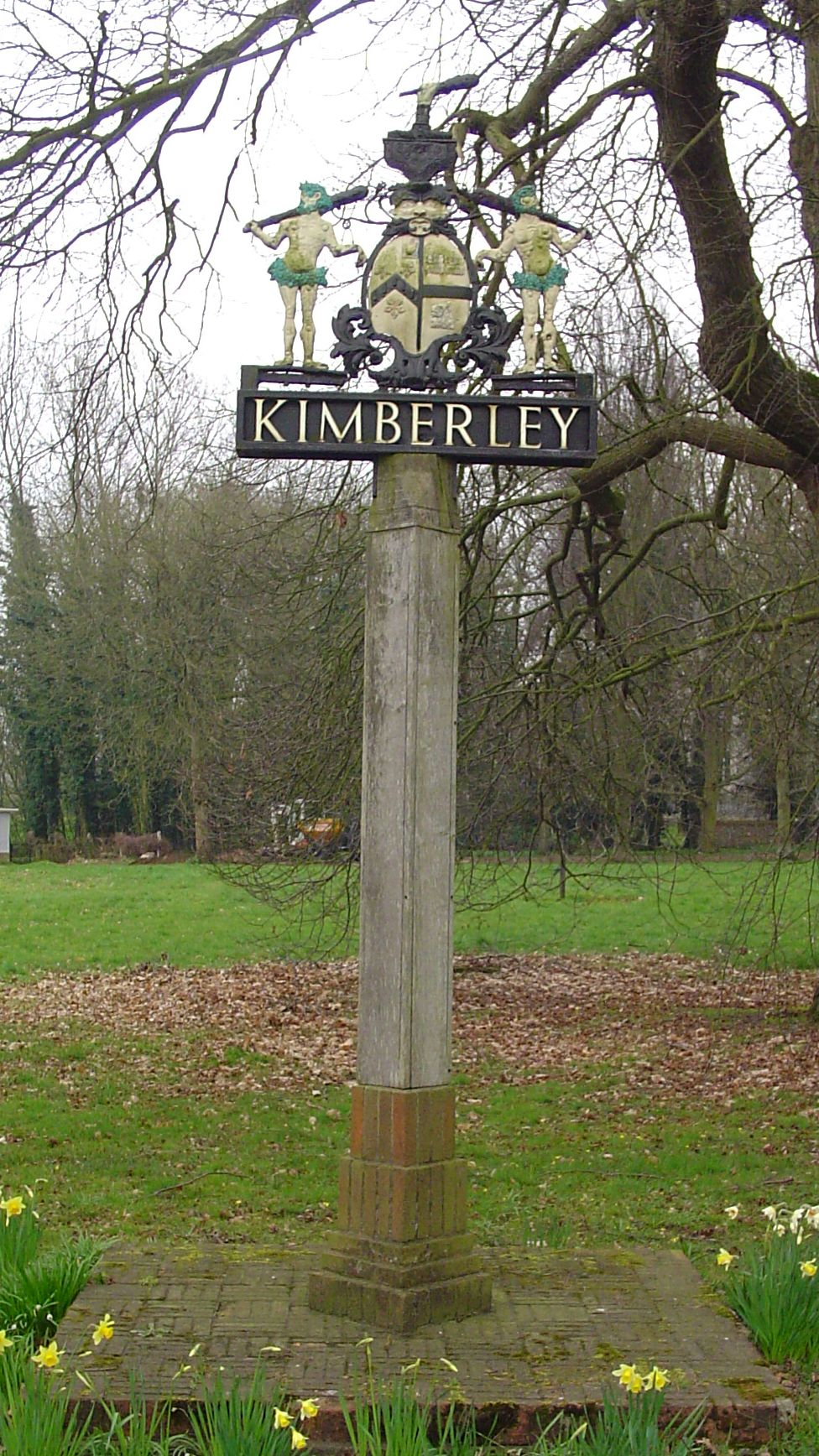 Signpost in Kimberley